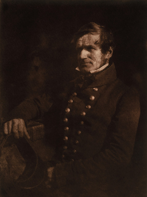 Robert Adamson, David Octavius Hill 1844 Accession no. PGP HA 1761 Medium Carbon print Size 20.10 x 14.90 cm Credit Elliot Collection, bequeathed 1950 For more information please select here.